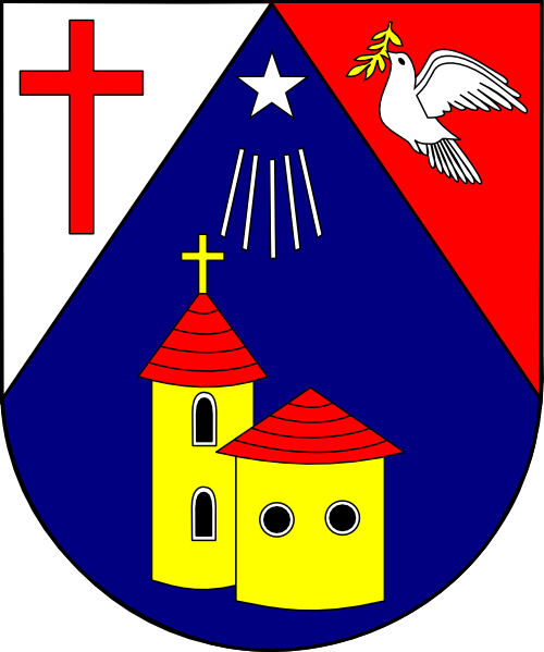 Coat of arms (shield only) of Ján Pásztor, bishop of Nitra, Slovakia (1973 - 1988)